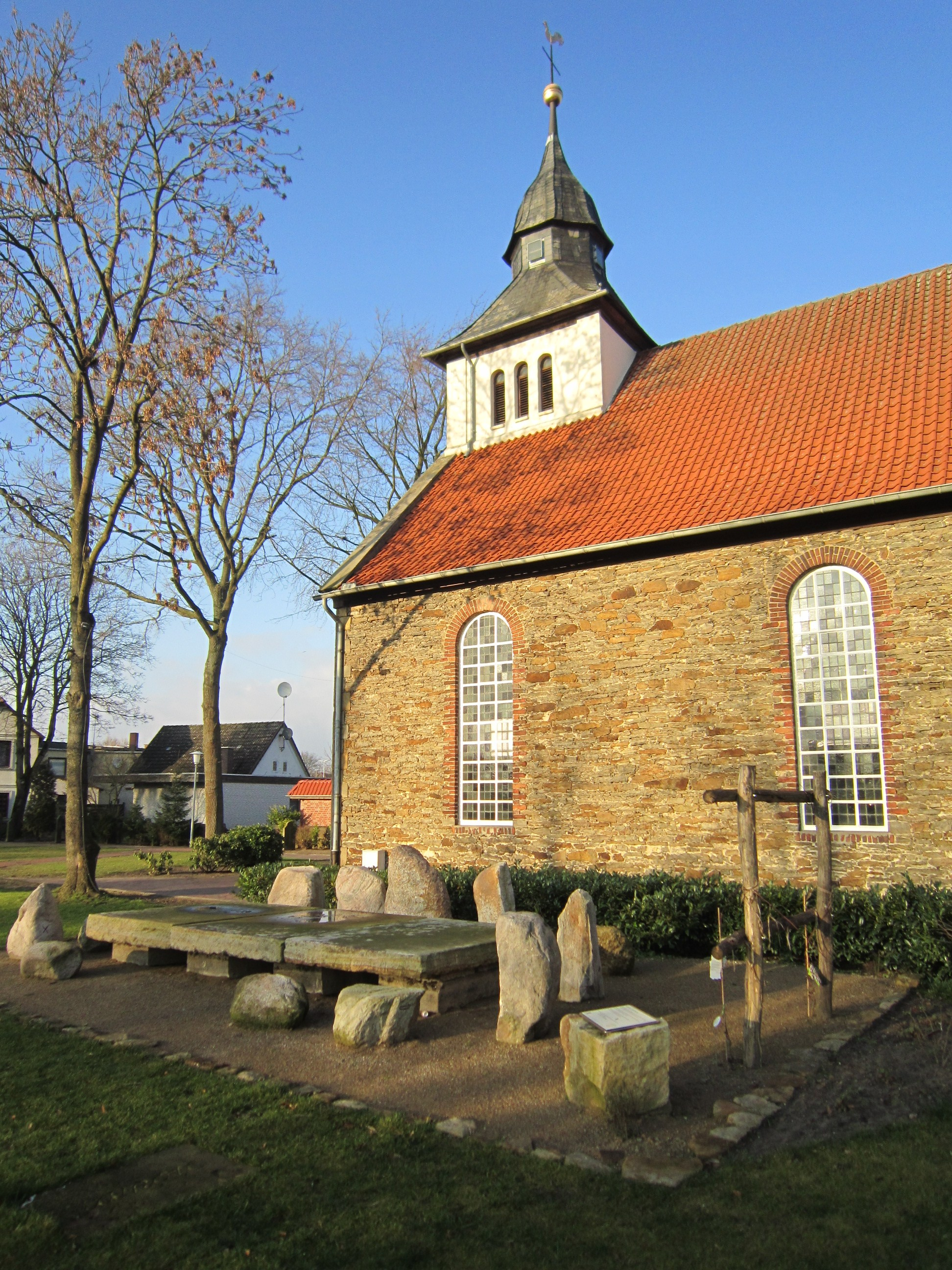 Wagenfeld: St. Anthony Church + Station 11 of the "Bible Garden"